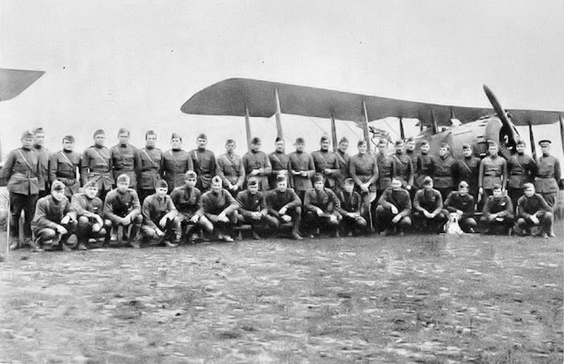 88th Aero Squadron, Bethelainville Aerodrome, France, November, 1918